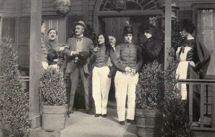 Still from the film Madeleine's Rebellion (USA 1911) which was directed by Edwin S. Porter and stars Mary Fuller. Still was published in David S. Hulfish, Cyclopedia of Motion-Picture Work (1914).